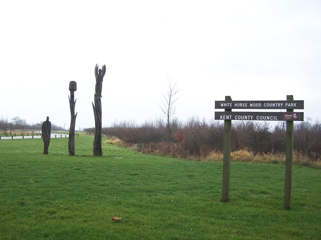 White Horse Wood Country Park The entrance to the park off the A249. The trees behind the sign ARE White Horse Wood - they were planted only a couple of years ago. The sculpures on the left are carved from tree trunks.